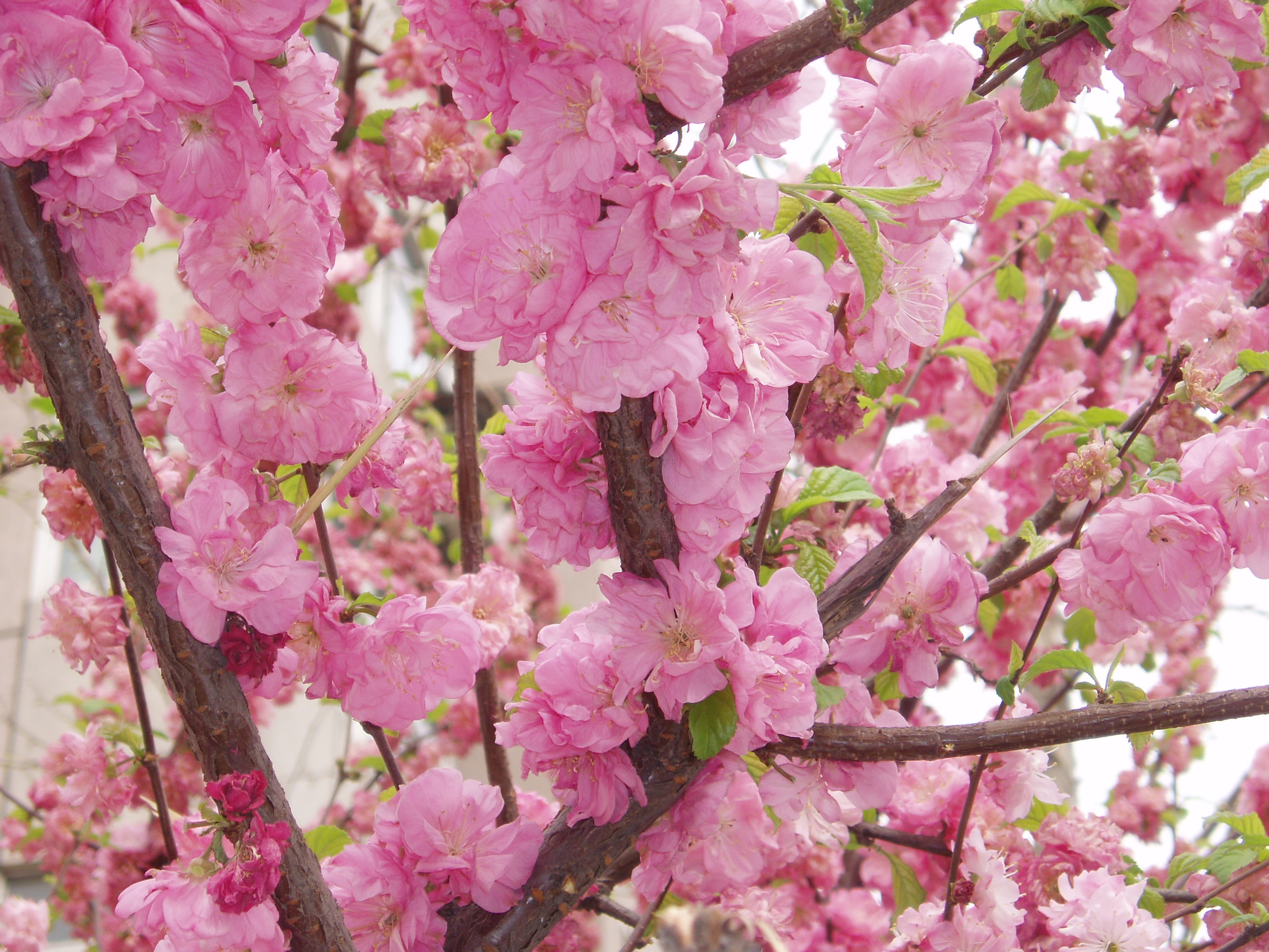 Peach flowers